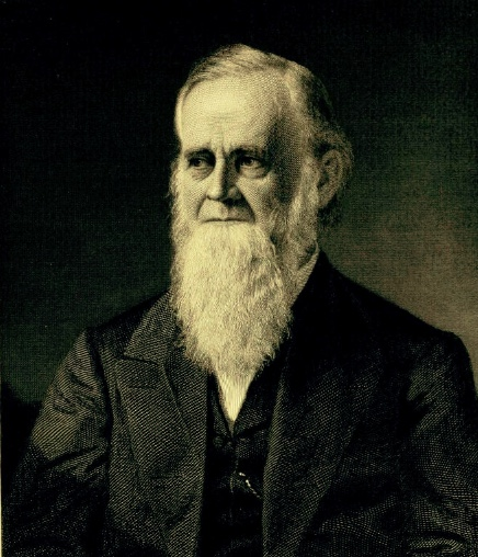 Samuel Wolcott, D.D., Congregationalist minister, missionary, and hymn-writer